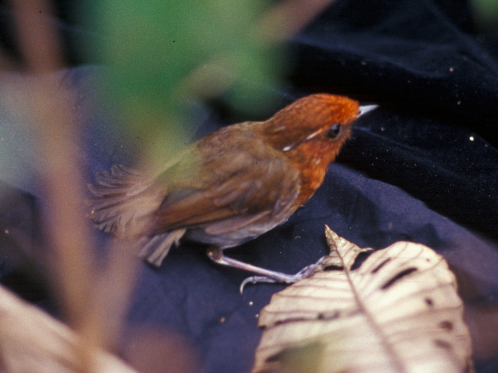 Chestnut-crowned Gnateater (Conopophaga castaneiceps). Female from Cordillera del Cóndor, Ecuador.